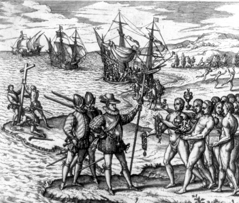 Columbus landing on Hispaniola, Dec. 6, 1492; greeted by Arawak Natives